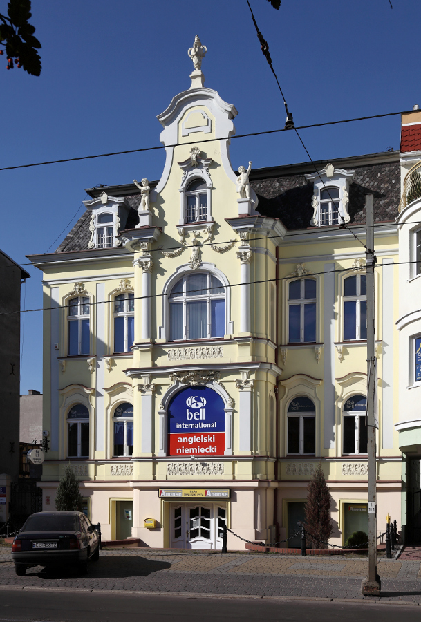 Bydgoszcz, Kuyavia-Pomerania Voivodeship, Poland. House at 119 Gdańska Str.